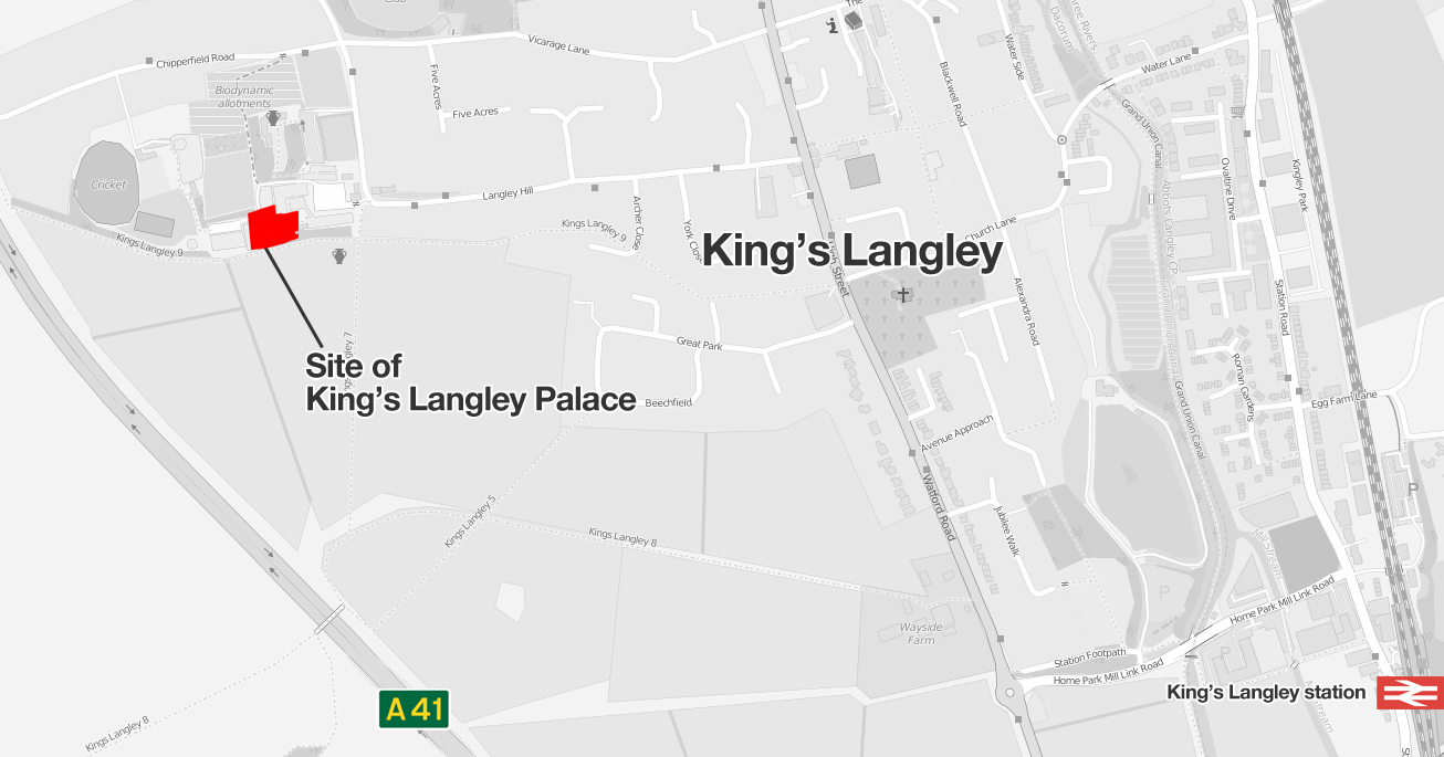 map showing the approximate location of the former Kings Langley Palace in Hertfordshire, England, based on information from Historic England listing